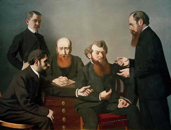 "Five painters"